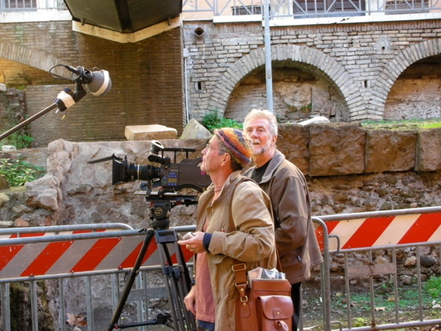 Robert Bilheimer and Richard Young in Italy while working on the film "Not My Life"